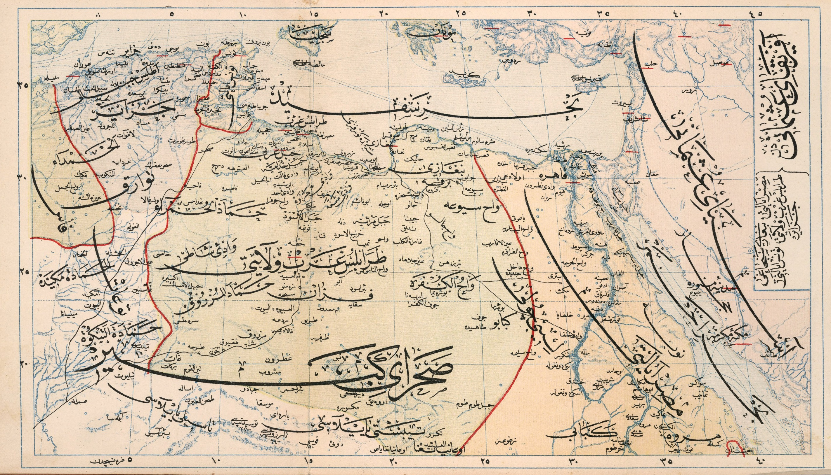 Egypt Eyalet, Bengazi Sanjak, Tripolitania Vilayet, Tunis Eyalet, Algeria — Memalik-i Mahruse-i Şahaneye Mahsus Mukemmel ve Mufassal Atlas (1907)